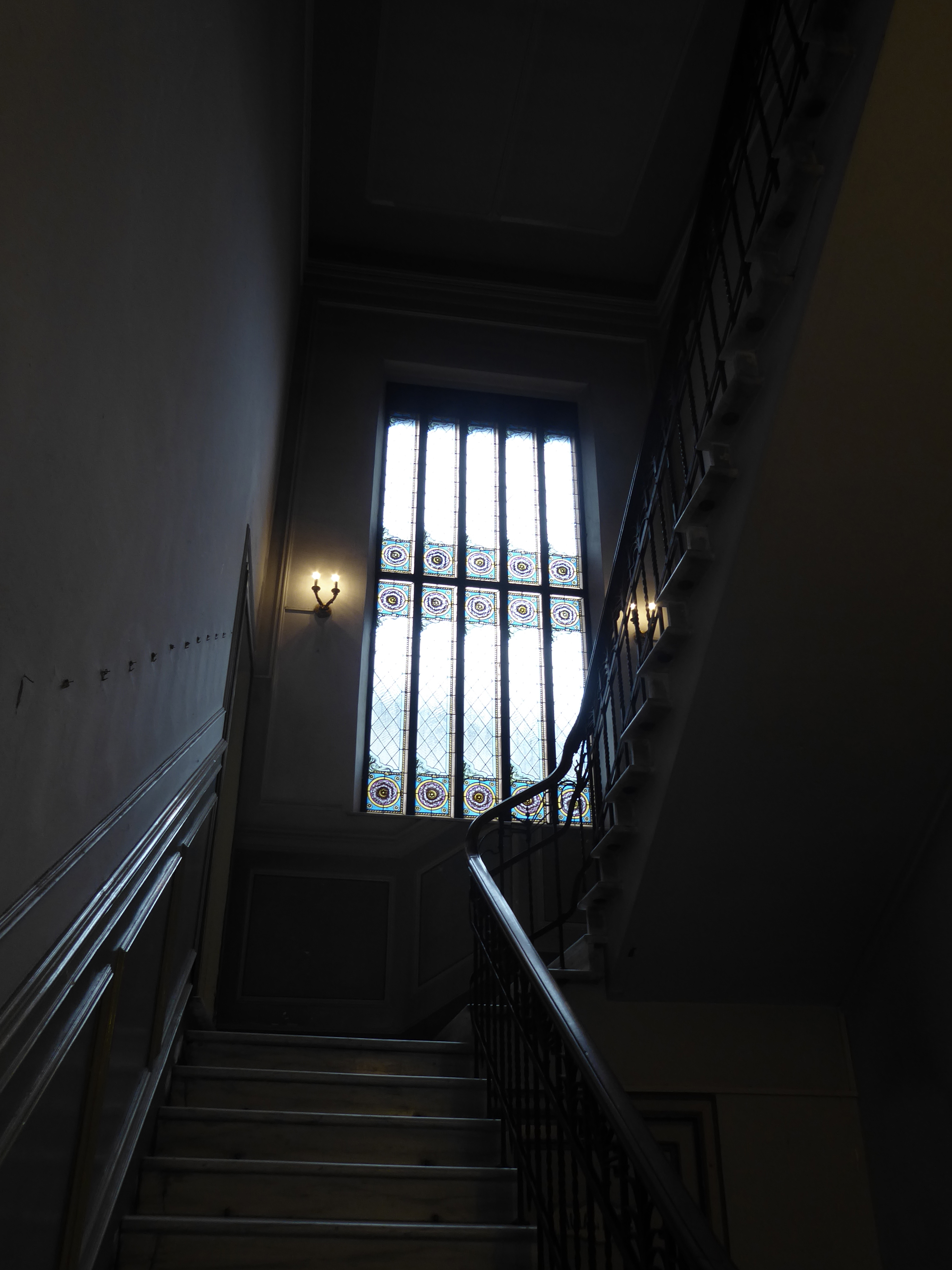 The stairs in Villa Gioiosa (Lucca, Tuscany, Italy)